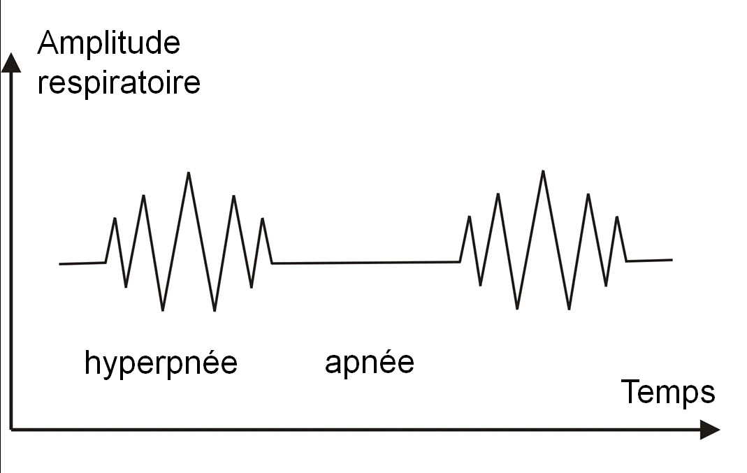 Cheyne-Stokes respiration - french